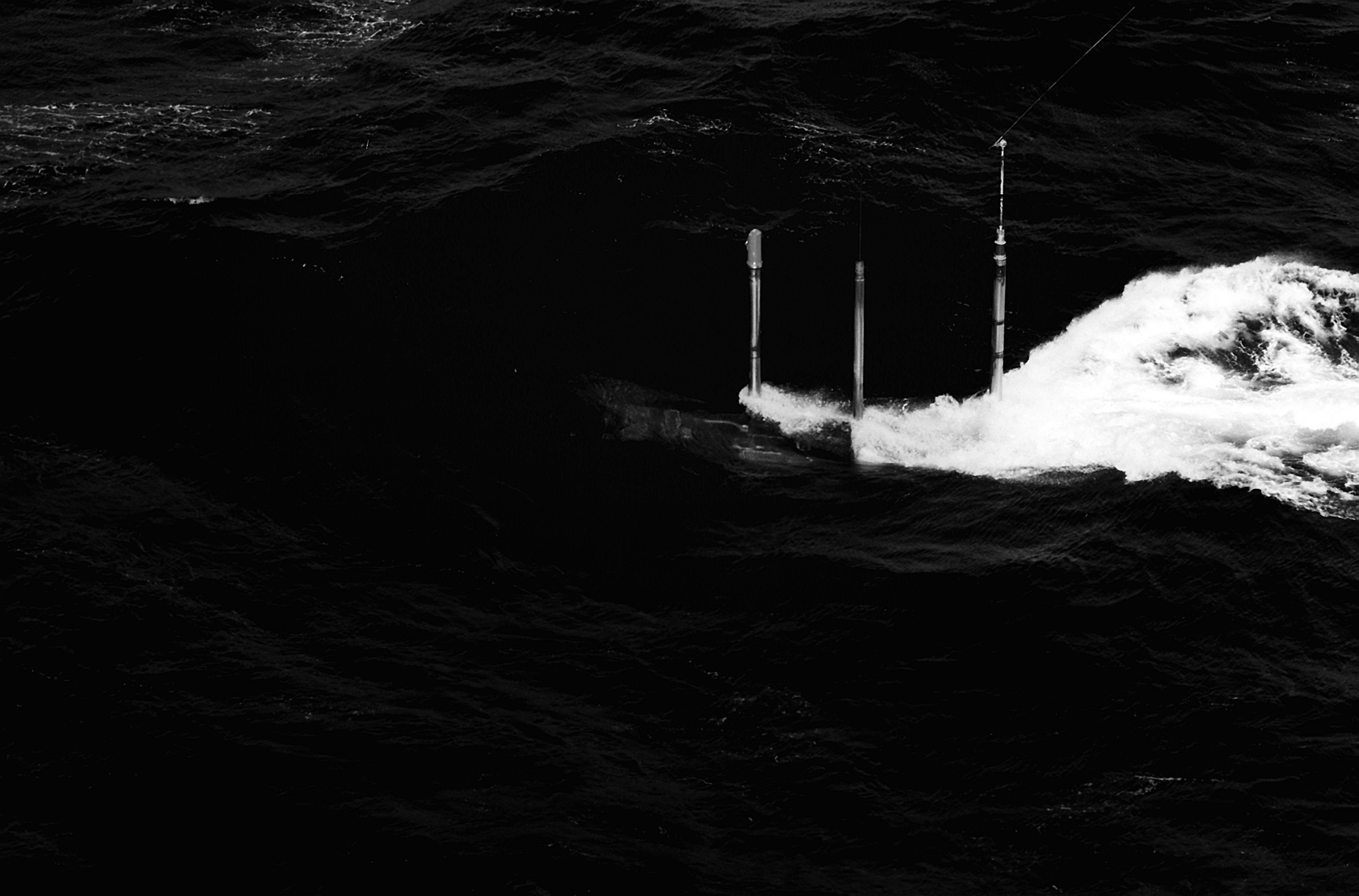 DN-SN-84-07510 An aerial port side view of a Soviet "Victor I" class submarine underway in the operating area of the USS KITTY HAWK (CV-63) Task Group.